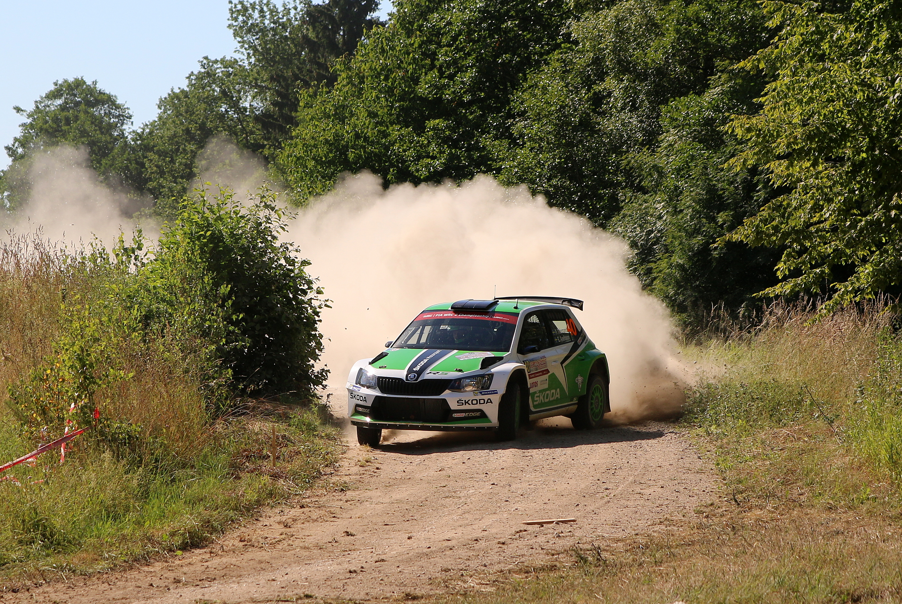 Pontus Tidemand, OS 10 Mazury, 72nd LOTOS Rally Poland